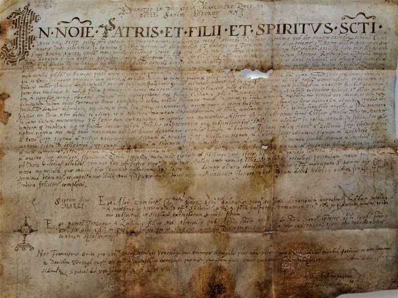 Duke Muncimir's chart